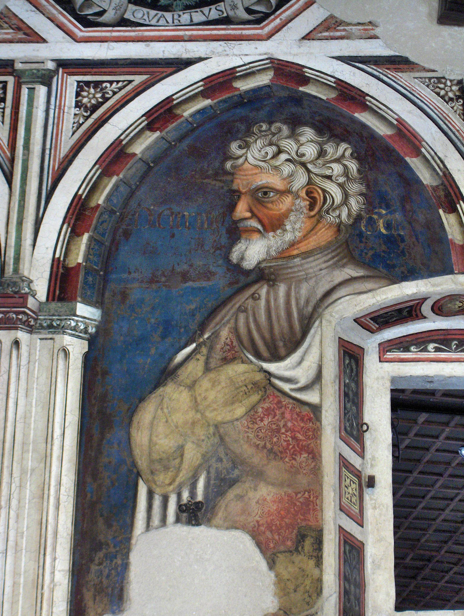 Marcus Curius Dentatus, fresco in the Giants Room, Trinci Palace, Foligno, Italy